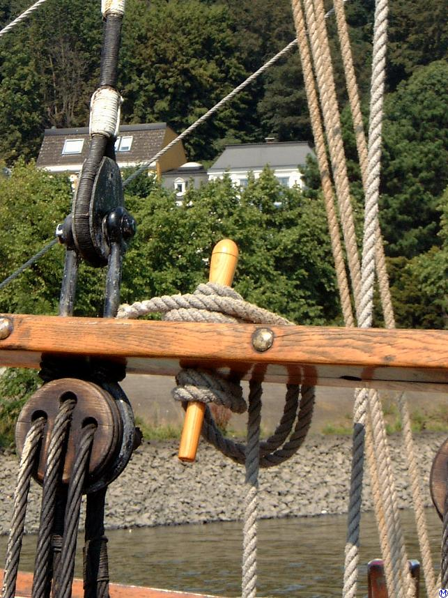 Belaying pin and pin rail with halyard; and a deadeye with lanyard.